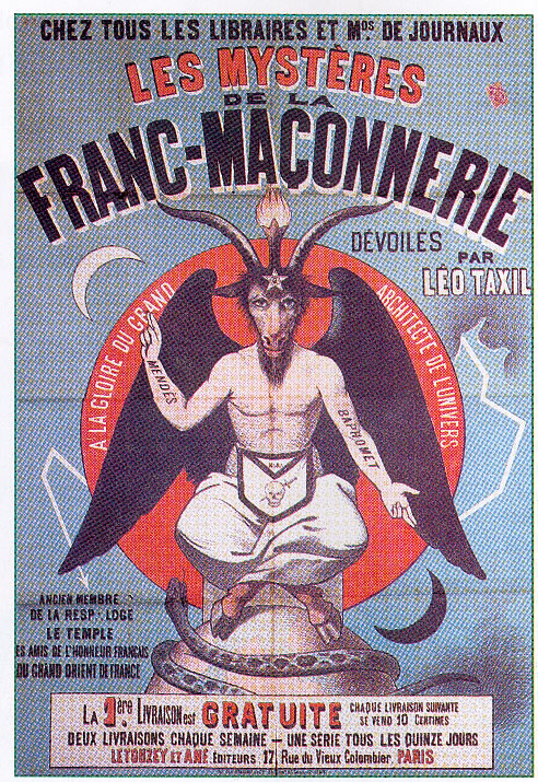 Les Mystères - Poster advertising anti-freemasonry book by Léo Taxil (1854–1907), with imagery based on Eliphas Lévi's version of "Baphomet" rather than anything Masonic.